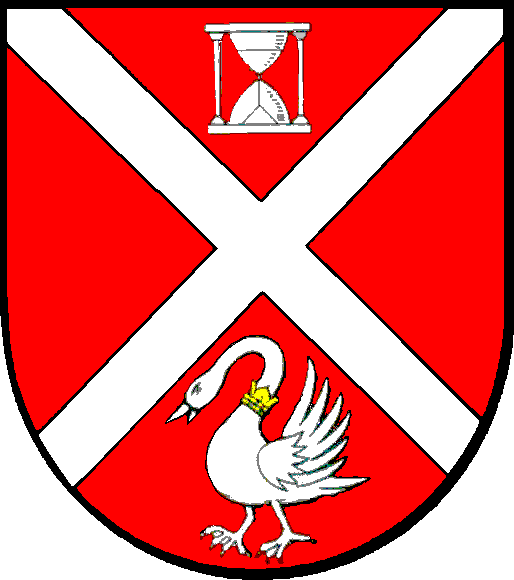 Coat of arms of the municipalitie Todendorf in Schleswig-Holstein, Germany.